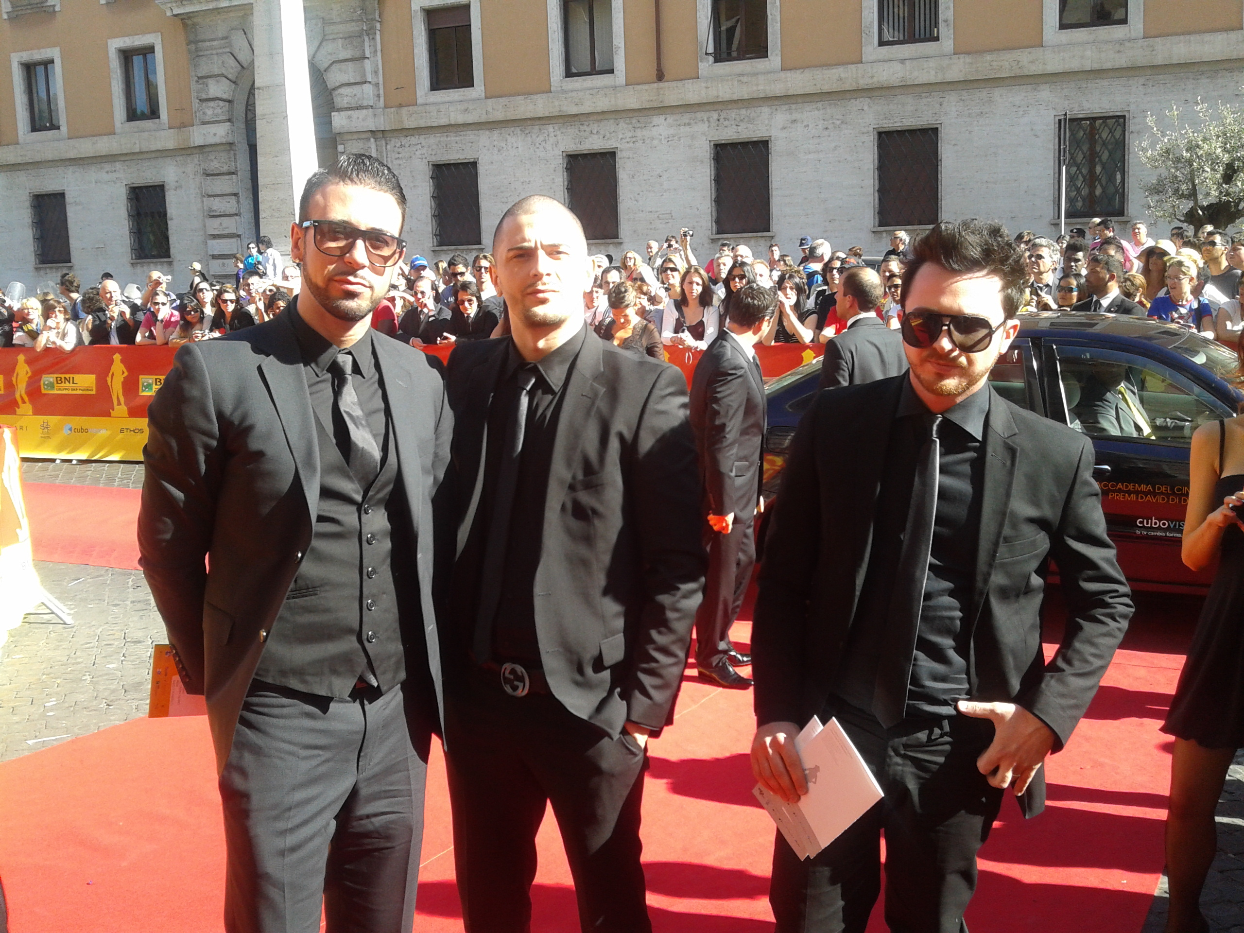 The Ceasars on the red carpet of 2012 David di Donatello. From left to right: Marco Pistella, Paolo Catoni,Francesco Rigon